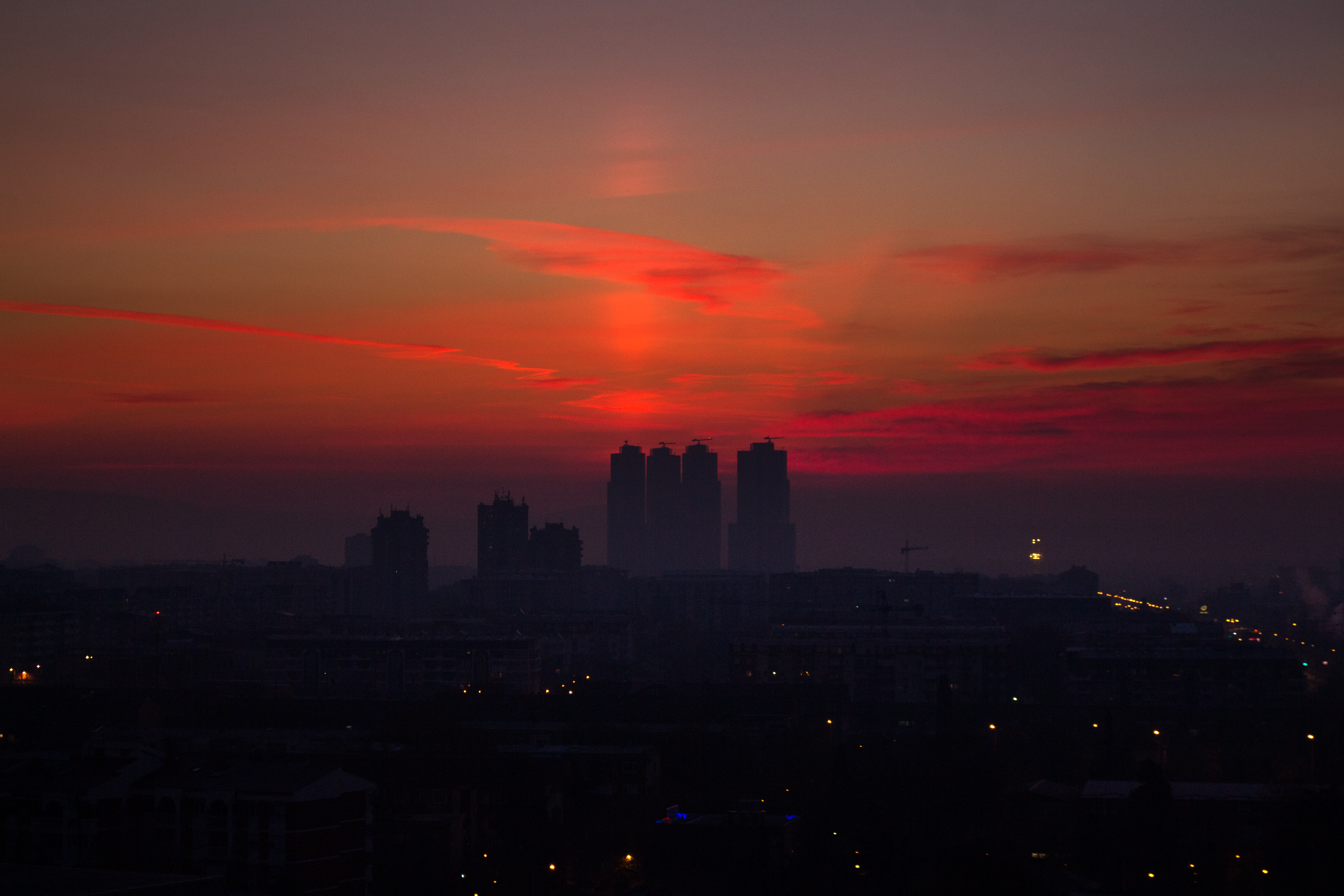 Taken from 12-th floor of an apartment building.